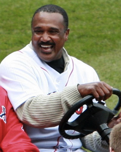 Jim Rice, Red Sox Opening Day, 2009.